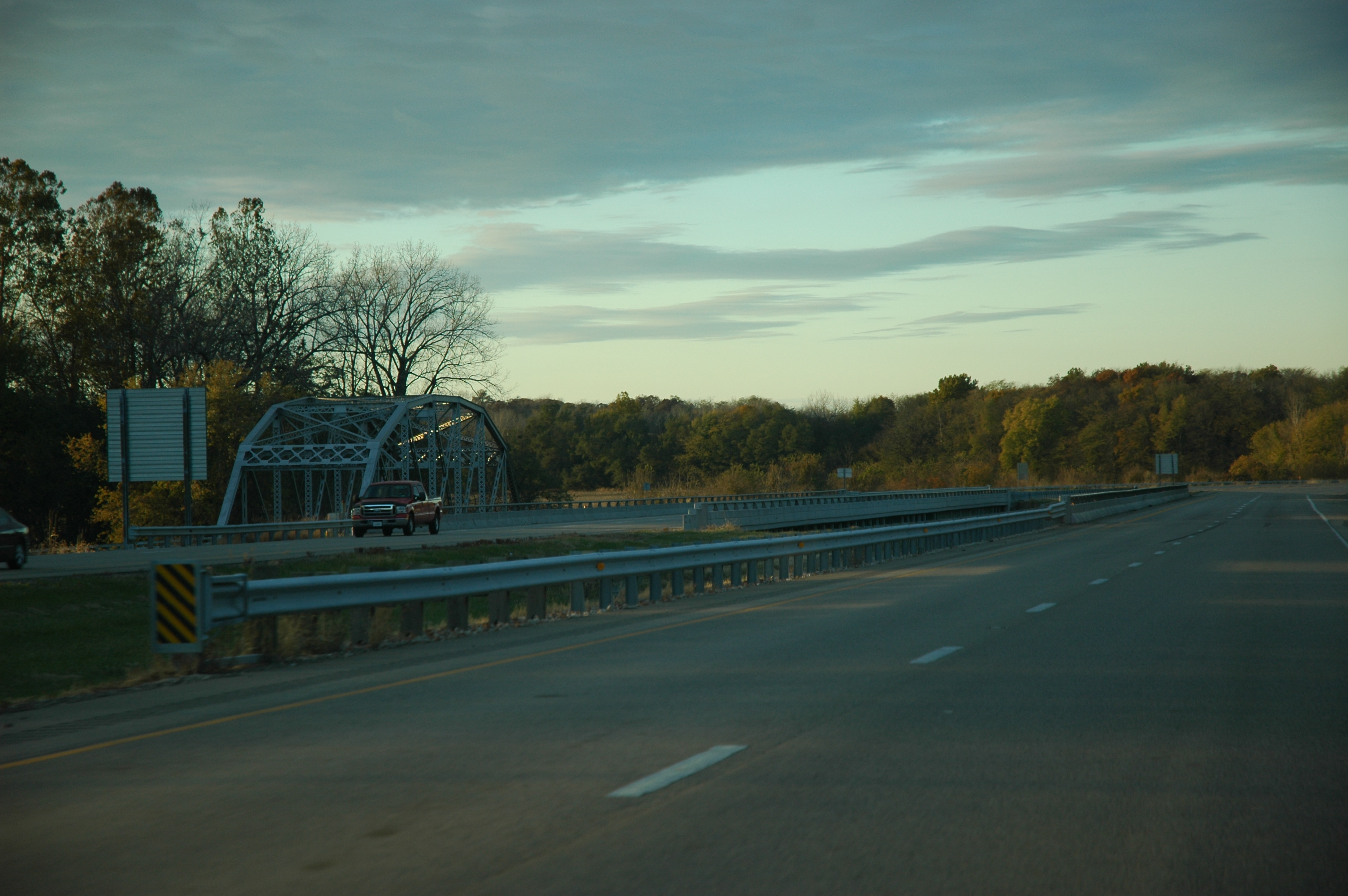 Interstate 155 in Illinois, traveling north at the Mackinaw River. In the background at left, the bridge on the former Illinois Route 121 from pre-Interstate days. (Hopedale Township, Tazewell County, Illinois, 1 mile (1.5 km) north of Illinois Route 122/Hopedale exit 19)